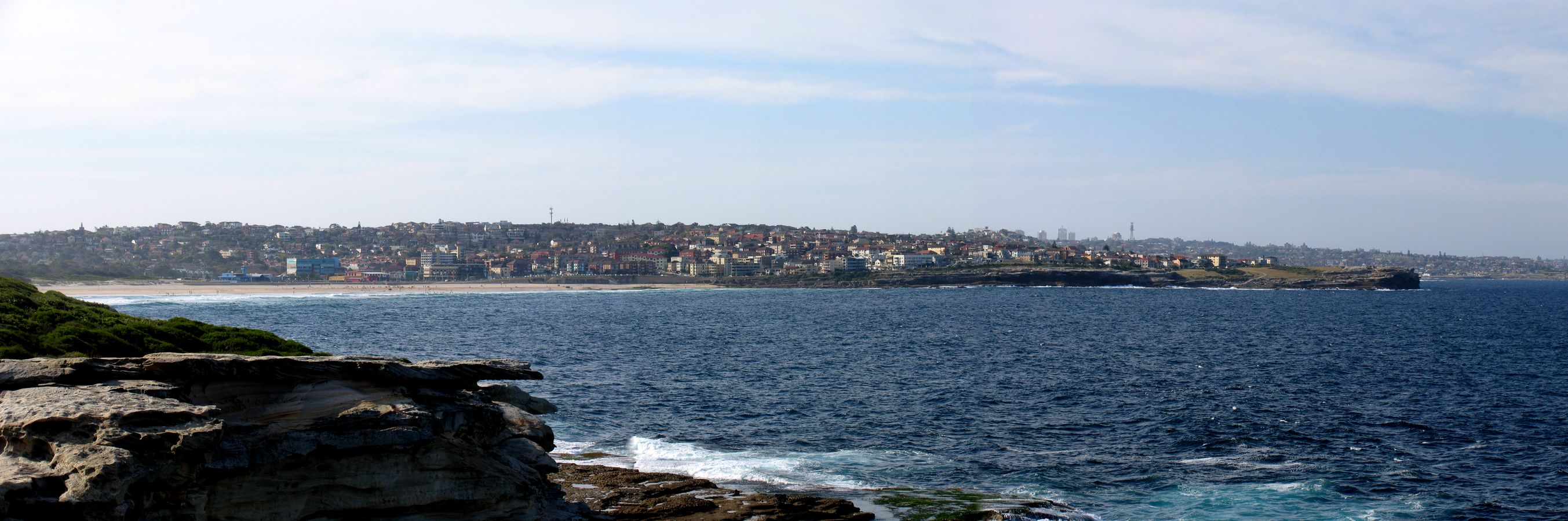 shoot from south shore - lately in 2007